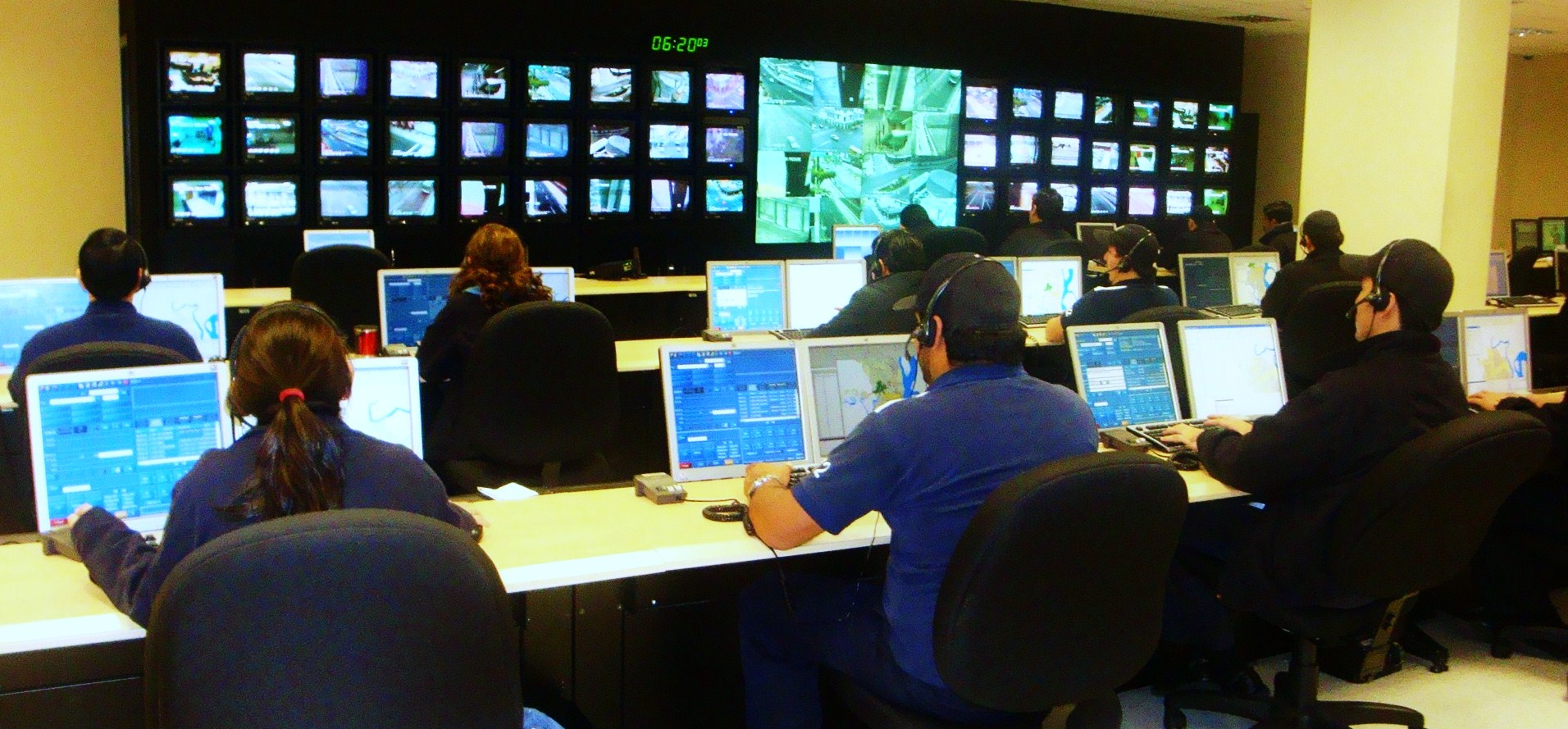 Emergency Call Center 112 in Guayaquil, Ecuador